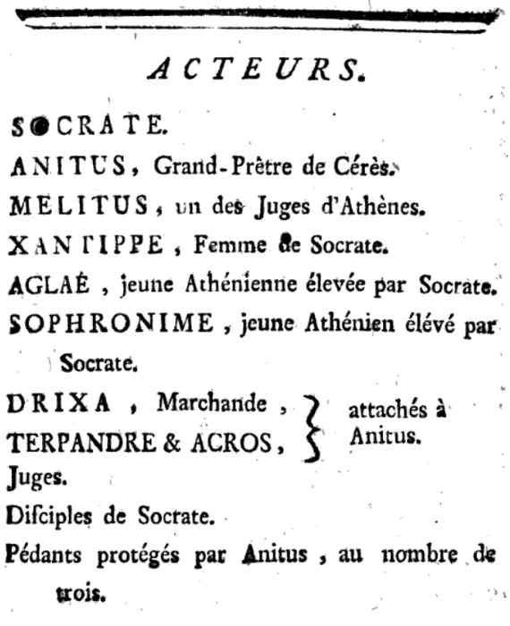 A French list of the names and descriptions of the characters in Voltaire's 1759 play Socrate, as published in a 1770 volume.